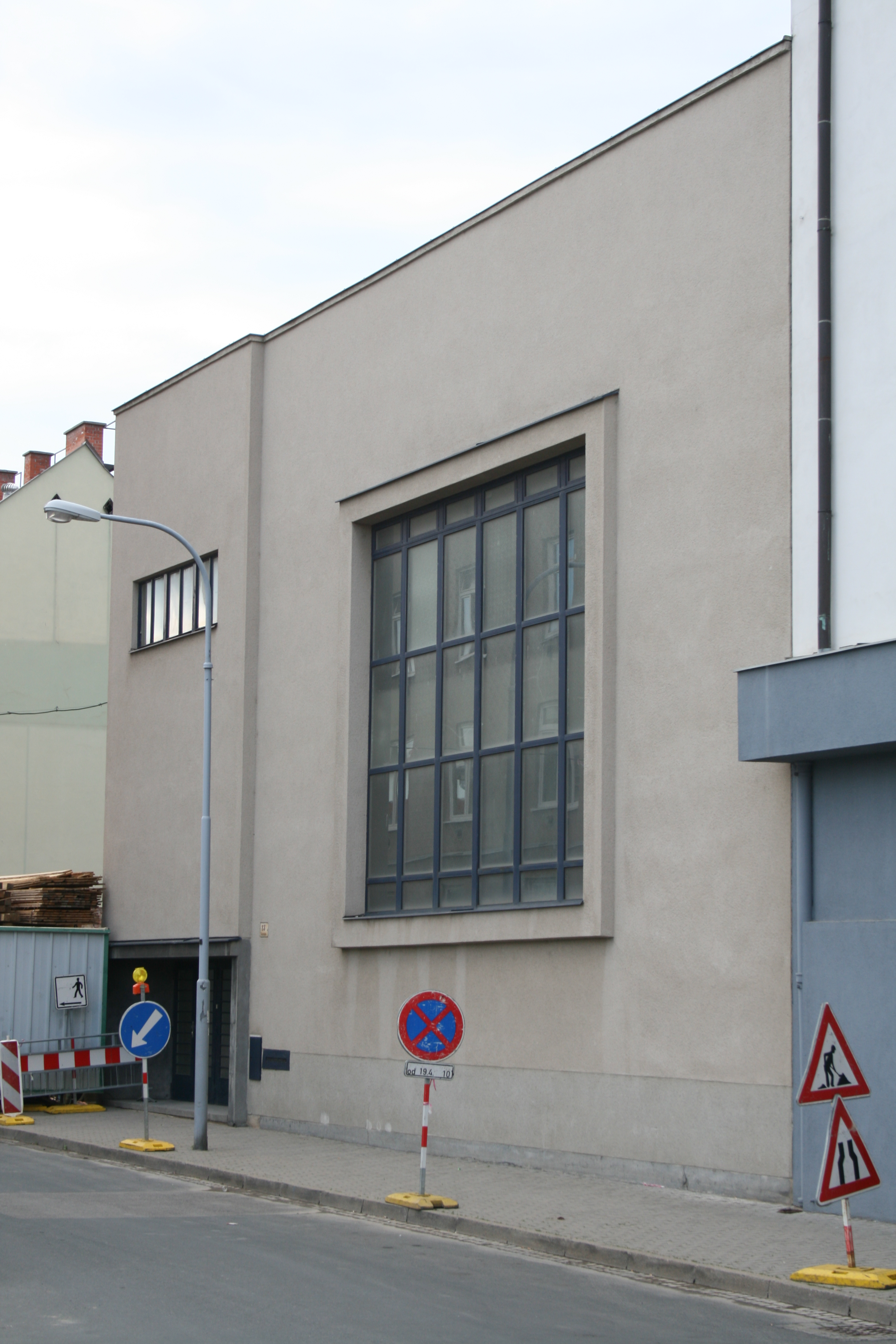 Modern synagogue Agudas Achim in Brno, Czech Republic, built by Otto Eisler in 1934.